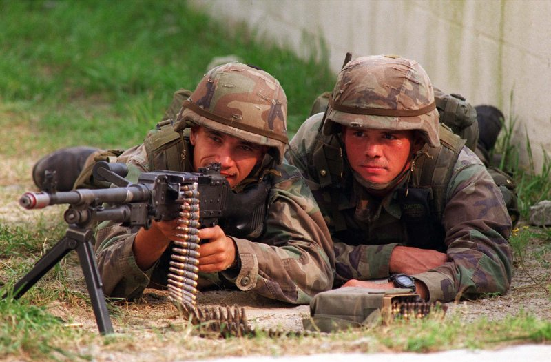 U.S. Marines sight in with an M-240G machine gun as they stand by to provide cover fire during a Military Operations in Urban Terrain Situational Training Exercise at Camp Lejeune, N.C., on Aug. 17, 1996 as part of Cooperative Osprey '96. Cooperative Osprey '96 is a NATO sponsored exercise as part of the alliance's Partnership for Peace program. The aim of the exercise is to develop interoperability among the participating forces through practice in combined peacekeeping and humanitarian operations. Three NATO countries and 16 Partnership for Peace nations are taking part in the field training exercise. The Marines are attached to the 2nd Battalion, 6th Marines. DoD photo by Lance Cpl. K.W. Holloway, U.S. Marine Corps.